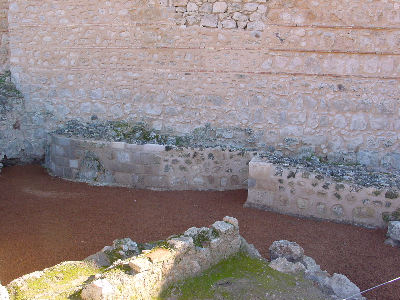 Calatrava la Vieja. Ciudad Real. España. Remains of the apse of the templar knights and the church of the Order of Calatrava